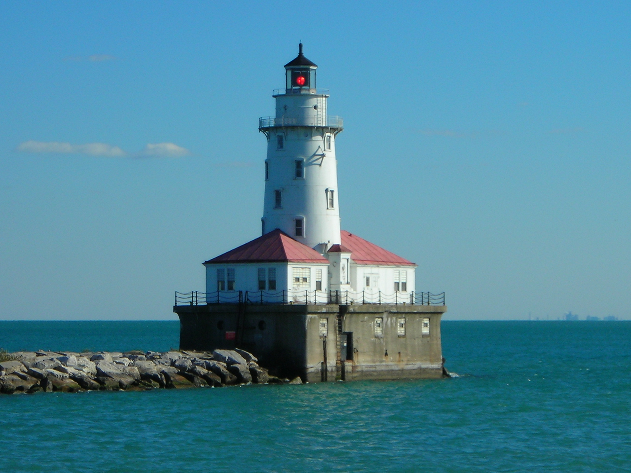 Chicago Harbor Light in Chicago, Illinois, USA